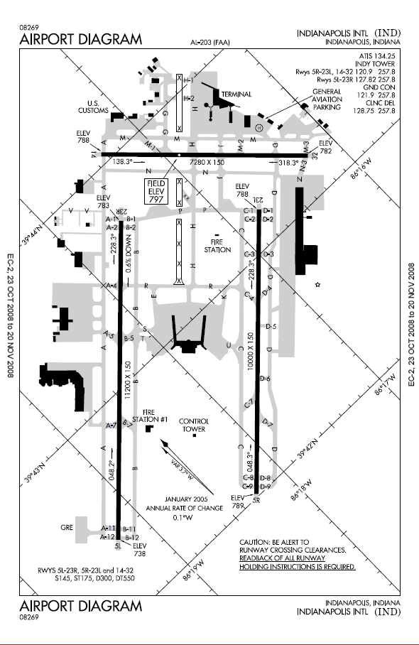 This image is the creation of the Federal Aviation Administration.